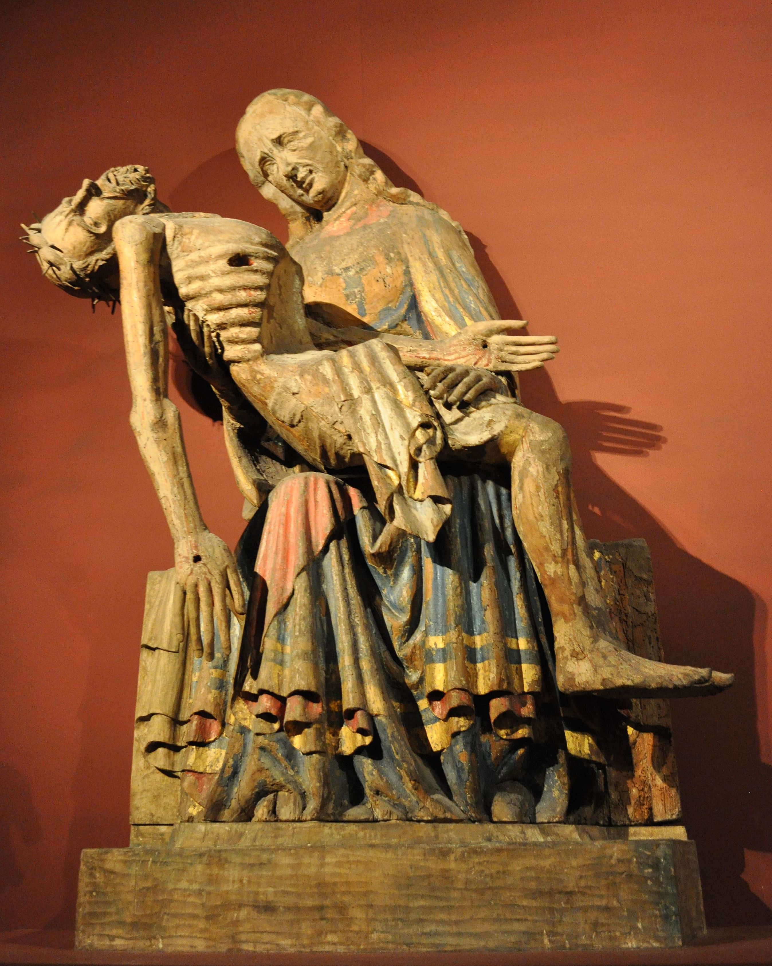 Pietà. Sculpture (poplar) Central Germany 1330/40.